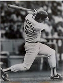 Los Angeles Dodgers' outfielder Mike Marshall swinging at a pitch during a Major League Baseball game in 1984.